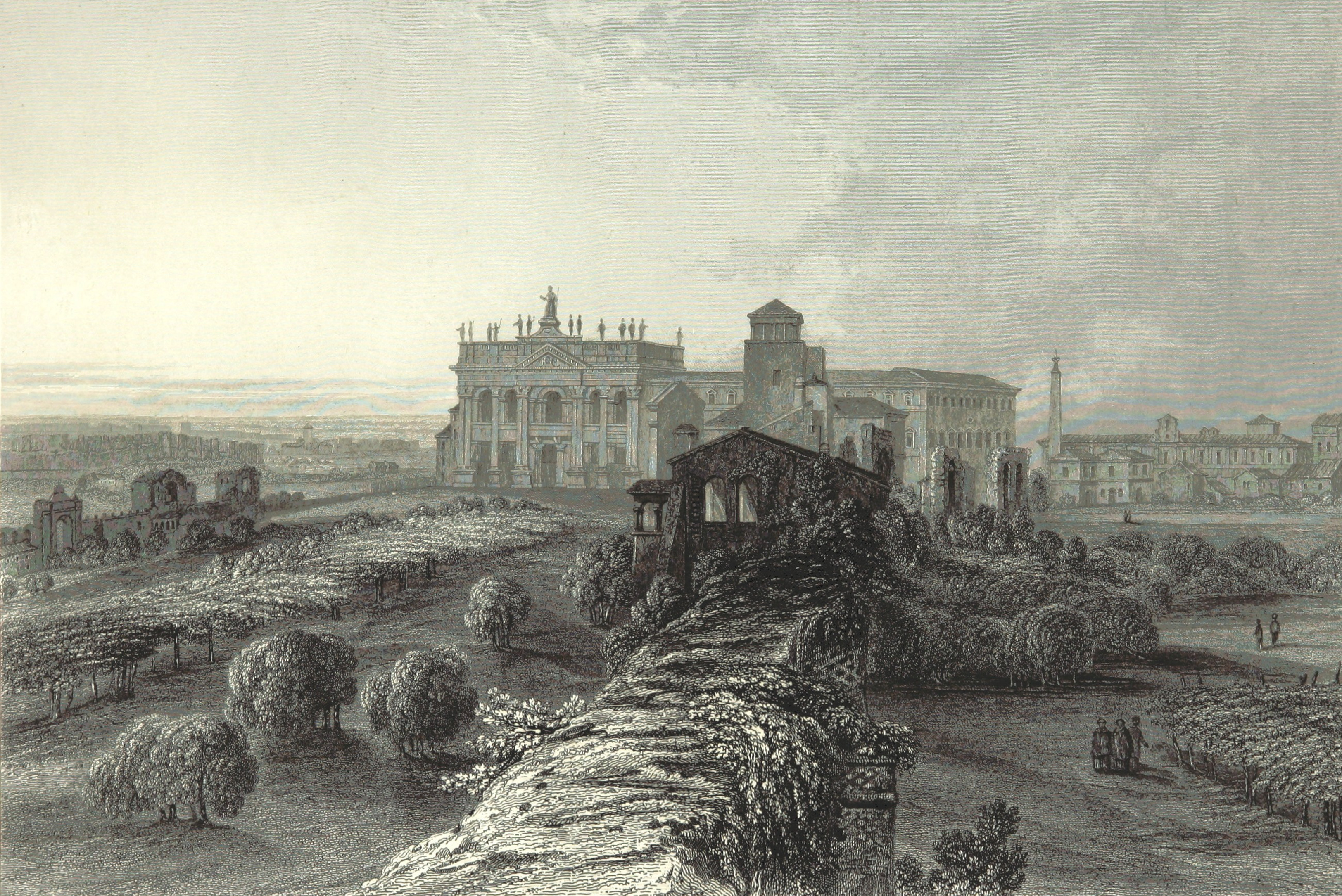 Image taken from: Title: "Italy, illustrated and described, in a series of views from drawings by Stanfield, R.A., Roberts, R.A., Harding, Prout, Leitch, Brockedon, Barnard, &c. &c. With descriptions of the scenes. And an introductory essay. on the political, religious, and moral state of Italy. By Camillo Mapei [translated by David Dundas Scott] ... And a sketch of the history and progress of Italy during the last fifteen years, 1847-62, in continuation of Dr. Mapei's essay. By the Rev. Gavin Carlyle", "Appendix. Travels, etc" Contributor: BROCKEDON, William. Contributor: SCOTT, David Dundas. Contributor: Stanfield, Clarkson Author: Italy Shelfmark: "British Library HMNTS 10151.f.6." Page: 415 Place of Publishing: London Date of Publishing: 1864 Publisher: Blackie & Son Issuance: monographic Identifier: 001828371 Rotated by Mac9